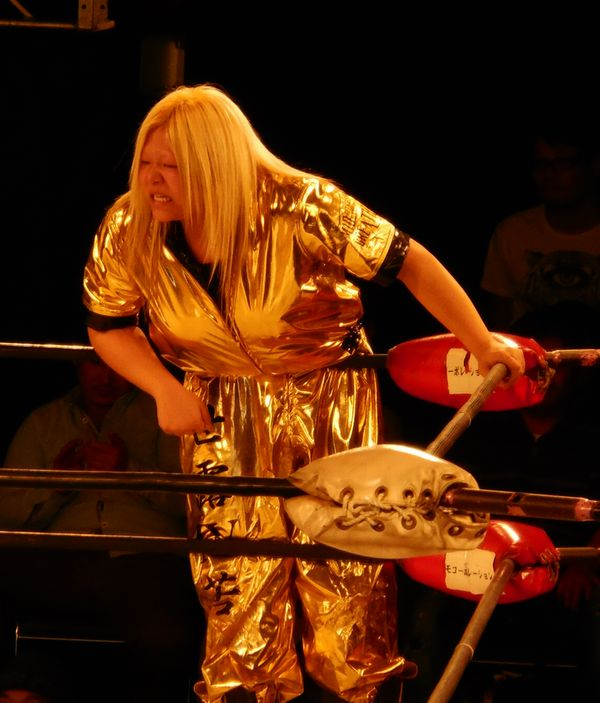 Japanese professional wrestler Yoshiko in March 2013.